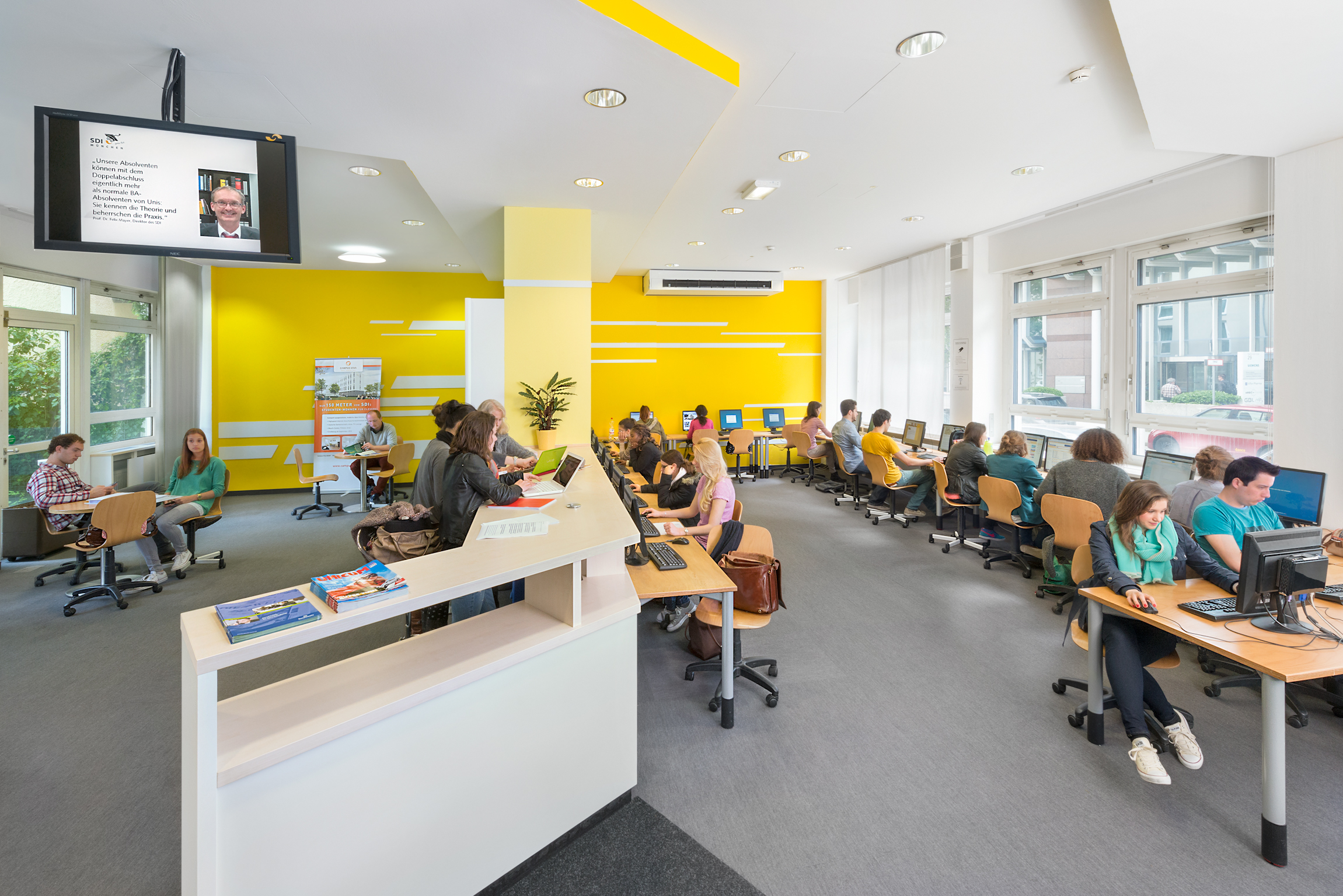 SDI Munich